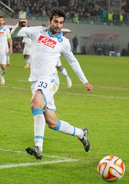 Raul Albiol playing for SSC Napoli in UEFA Europa League match against Dinamo Moscow